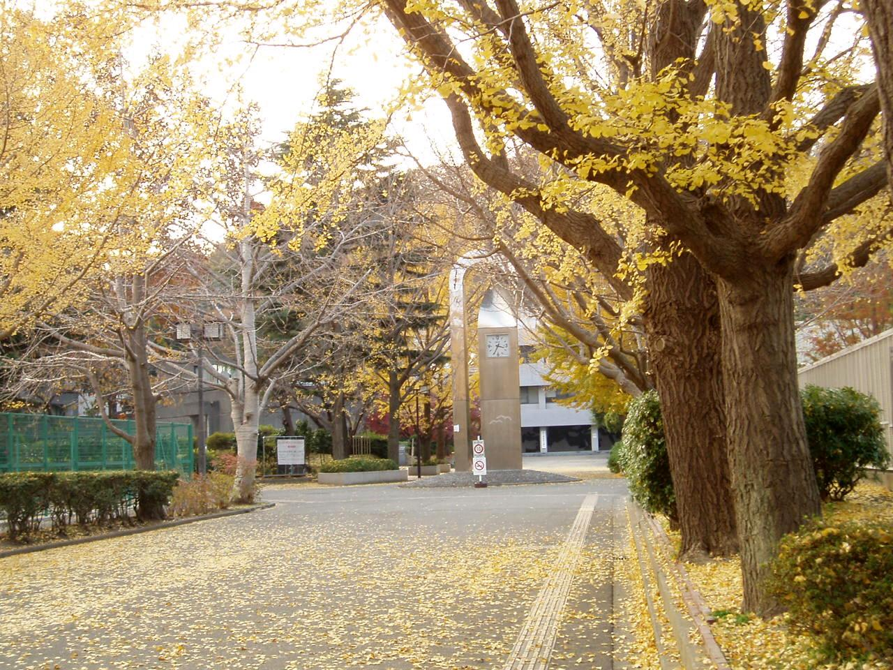 The Clock Tower and ginkgo trees at Kanazawa-Hakkei Campus, Yokohama City University.